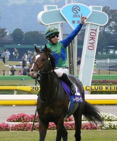 Tosen-Jordan20111030(1)